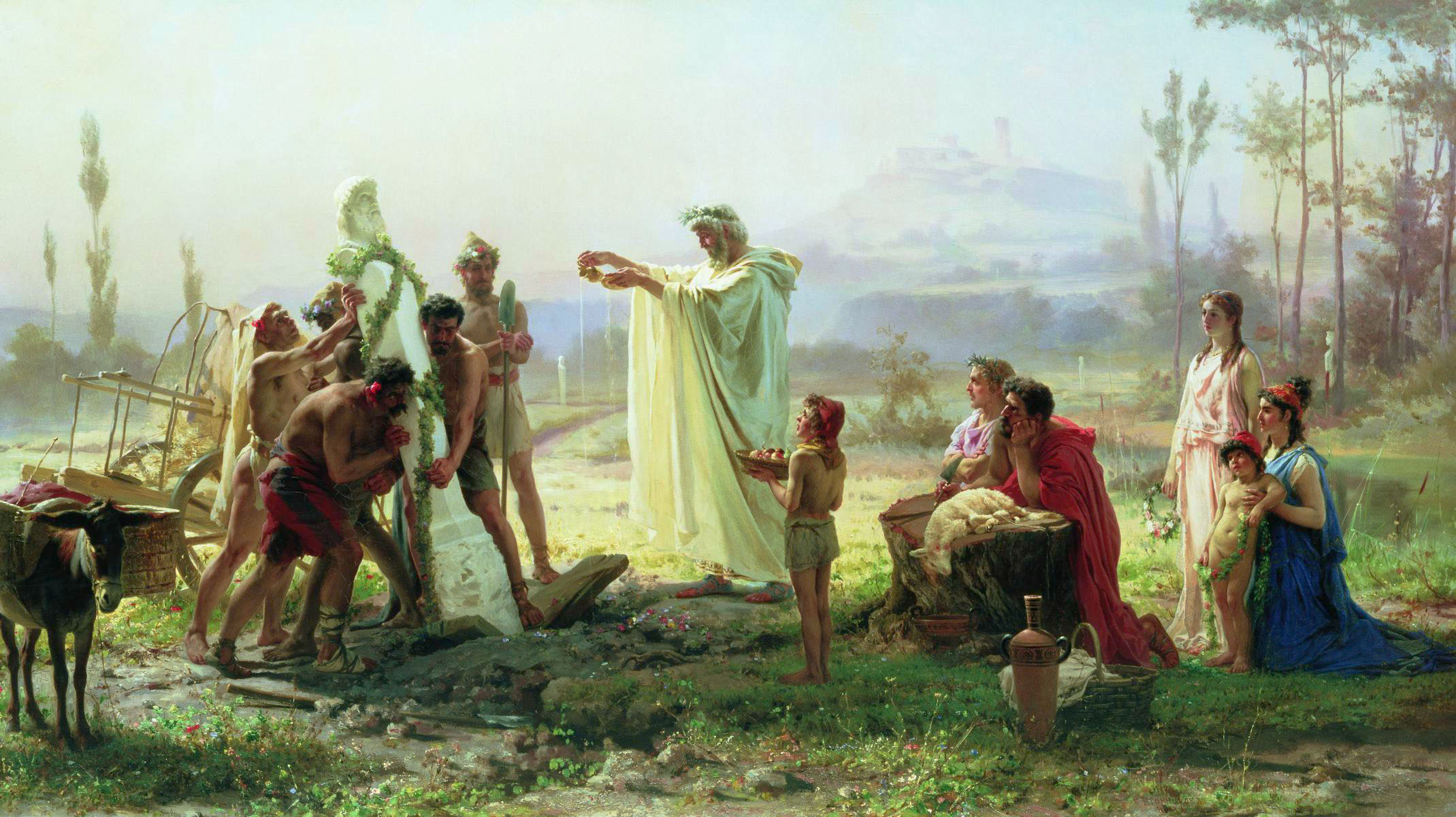 Consecration of the herm by F.Bronnikov